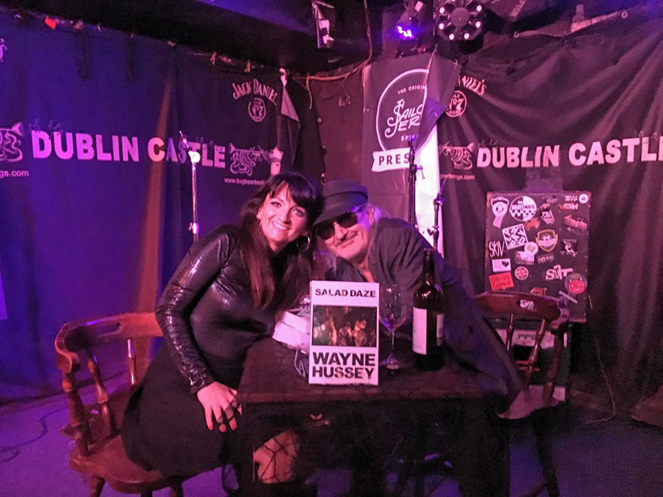 Julie Hamill, Wayne Hussey pictured as an example of The Rock And Roll Book Club setting, Camden.